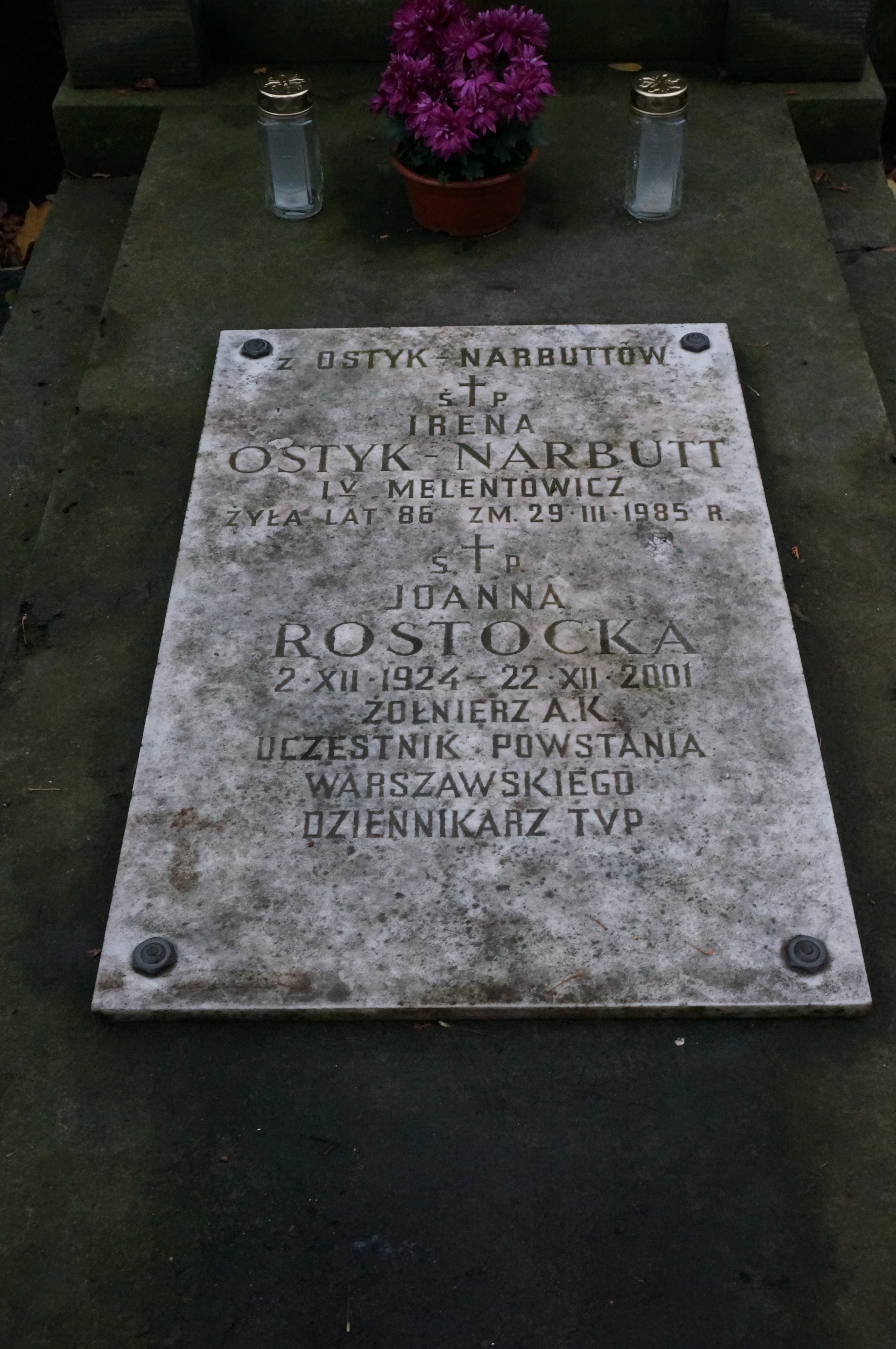 Grave plaque dedicated to Joanna Rostocka (section T, row 2, grave 16)